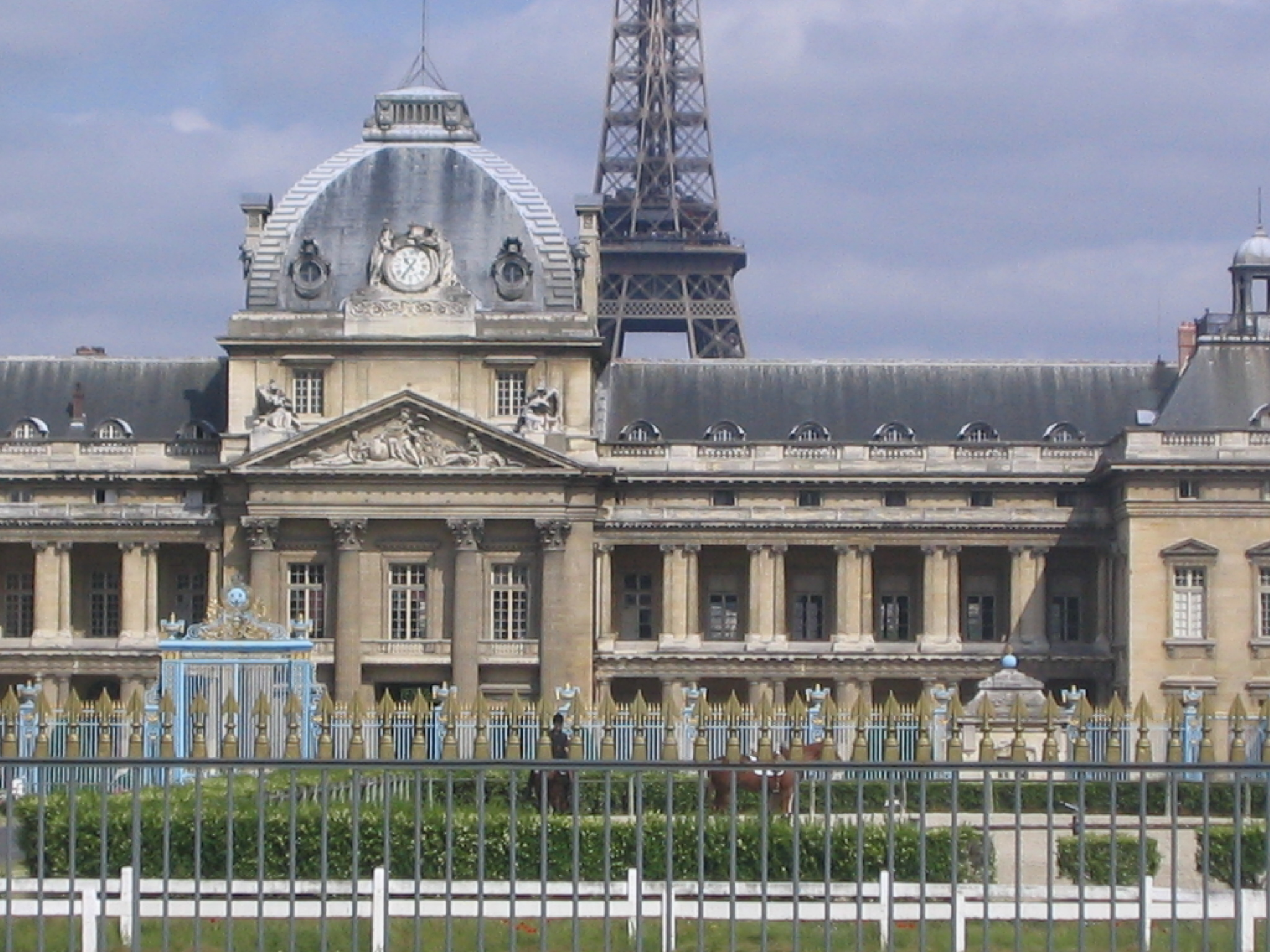 Ecole Militaire in Paris, from Place de Fontenoy, with the Eiffel Tower in the background.